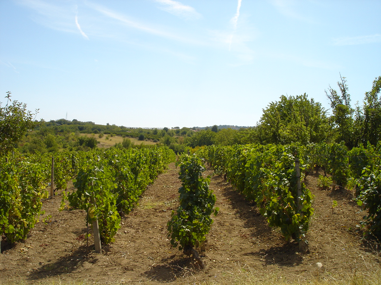 Vineyard in Usje, Macedonia